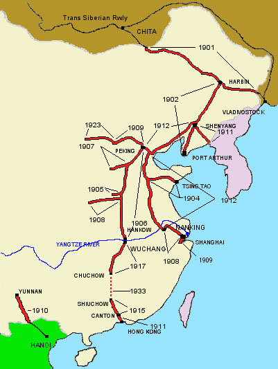 Map showing rail network of China in early part of 20th century